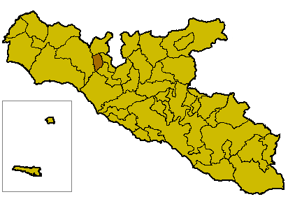 Location map of Villafranca Sicula in the province of Agrigento.